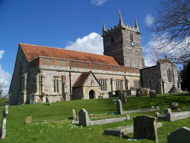 St Laurence's Church, Downton The church dates from the 12th and 13th centuries.